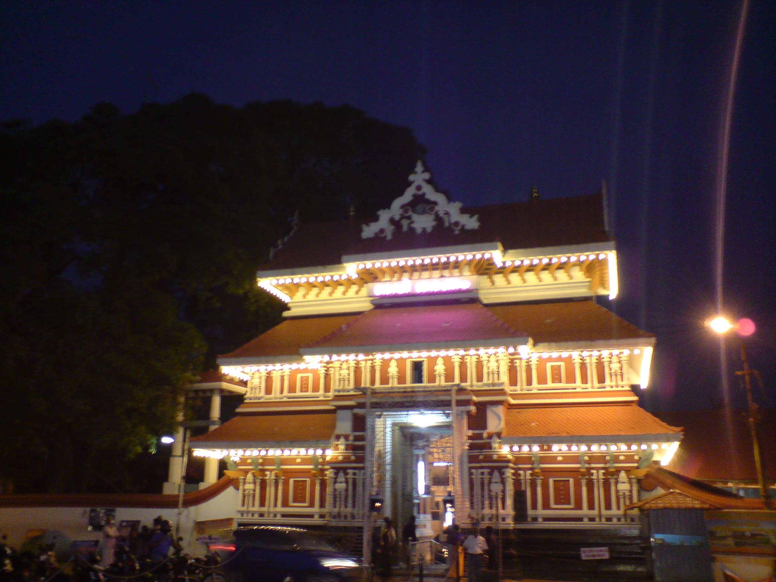 Paramekkavu Bagavathi Temple in Thrissur